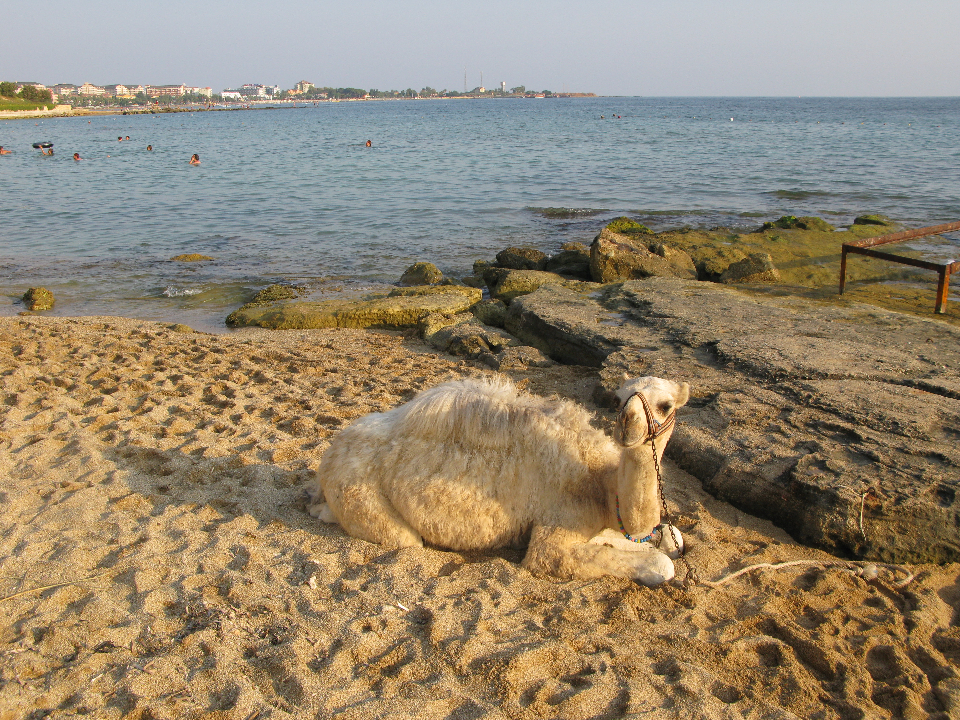 Dromedary (camelus dromedarius) sitted on a beach in Avsallar.